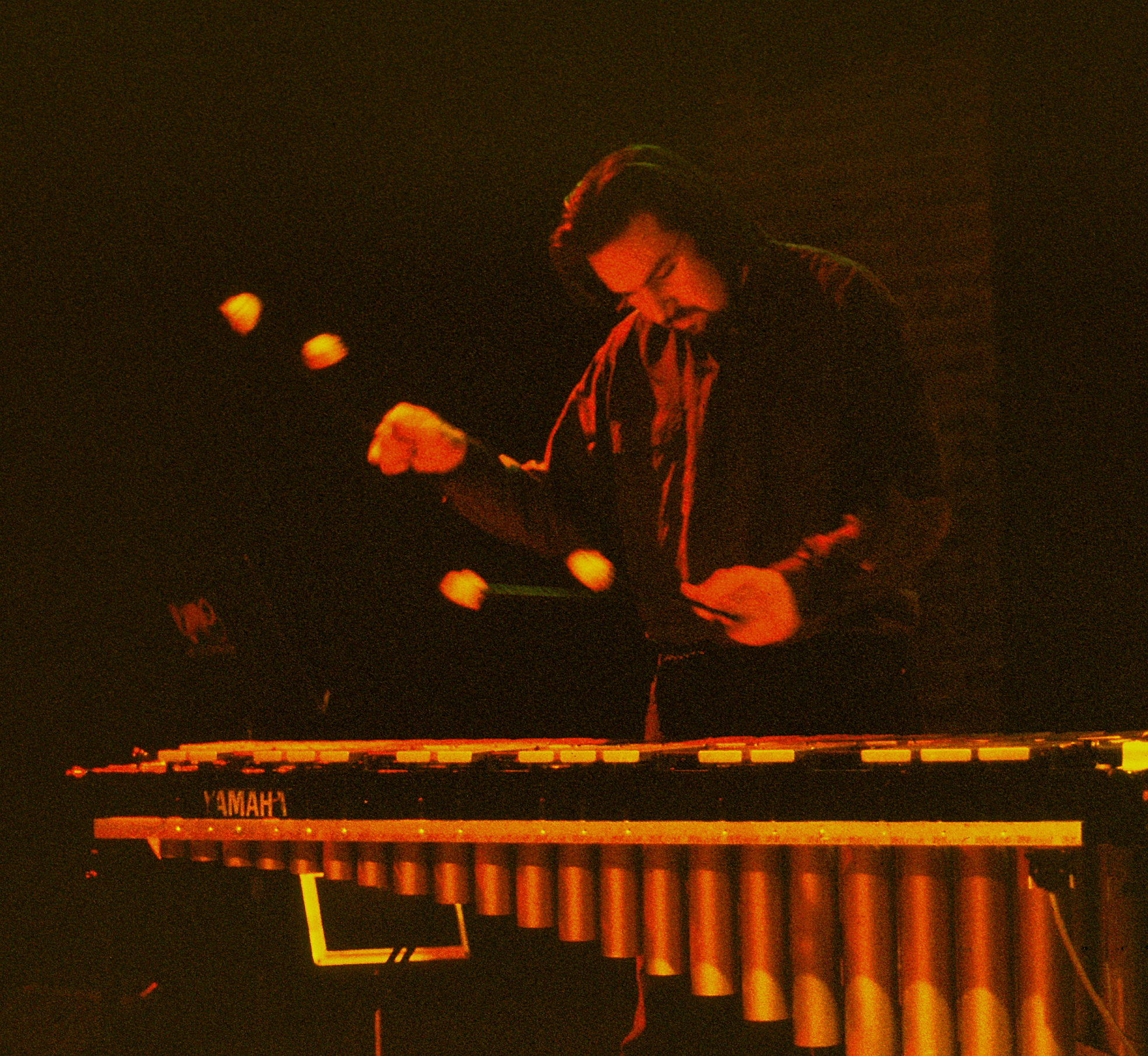 Arttu Takalo plays vibes at Jumo Jazzclub, Helsinki, Finland, in 1992.